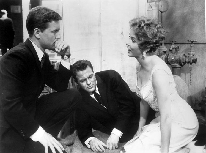 Photo of Roger Smith, Biff Elliot and Maureen Leeds from the television program 77 Sunset Strip. This episode is "Big Boy Blue".